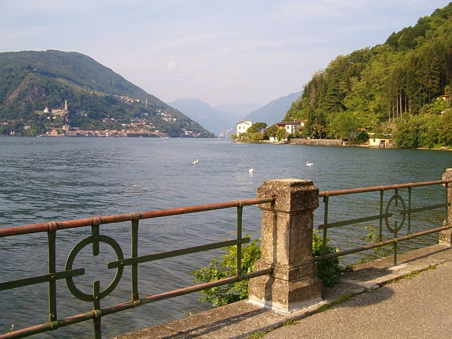 Porto Ceresio, view on Lago di Lugano Picture taken by user:Idéfix, may 2004